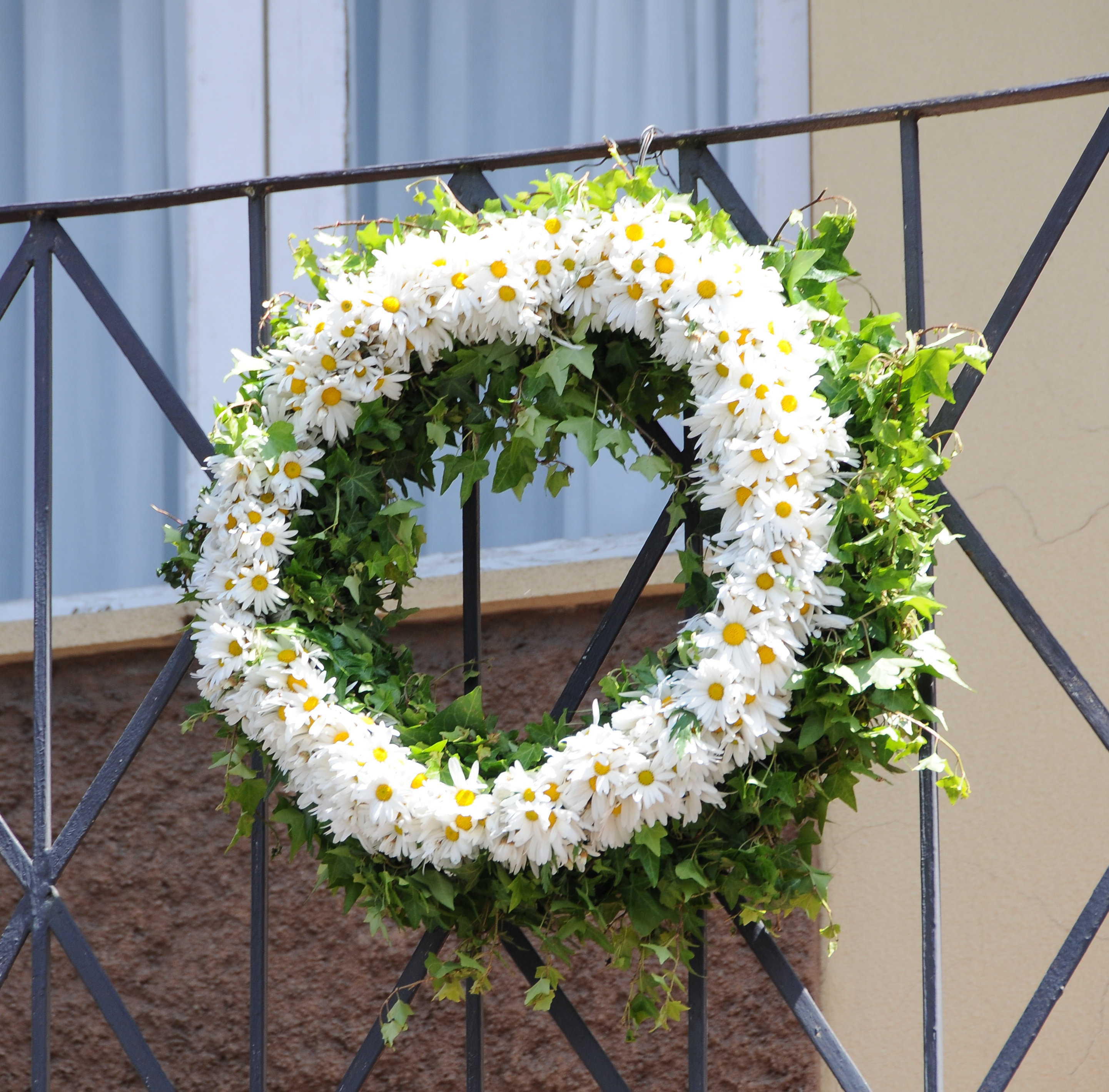 "Maio" in São Vicente, Braga, Portugal.